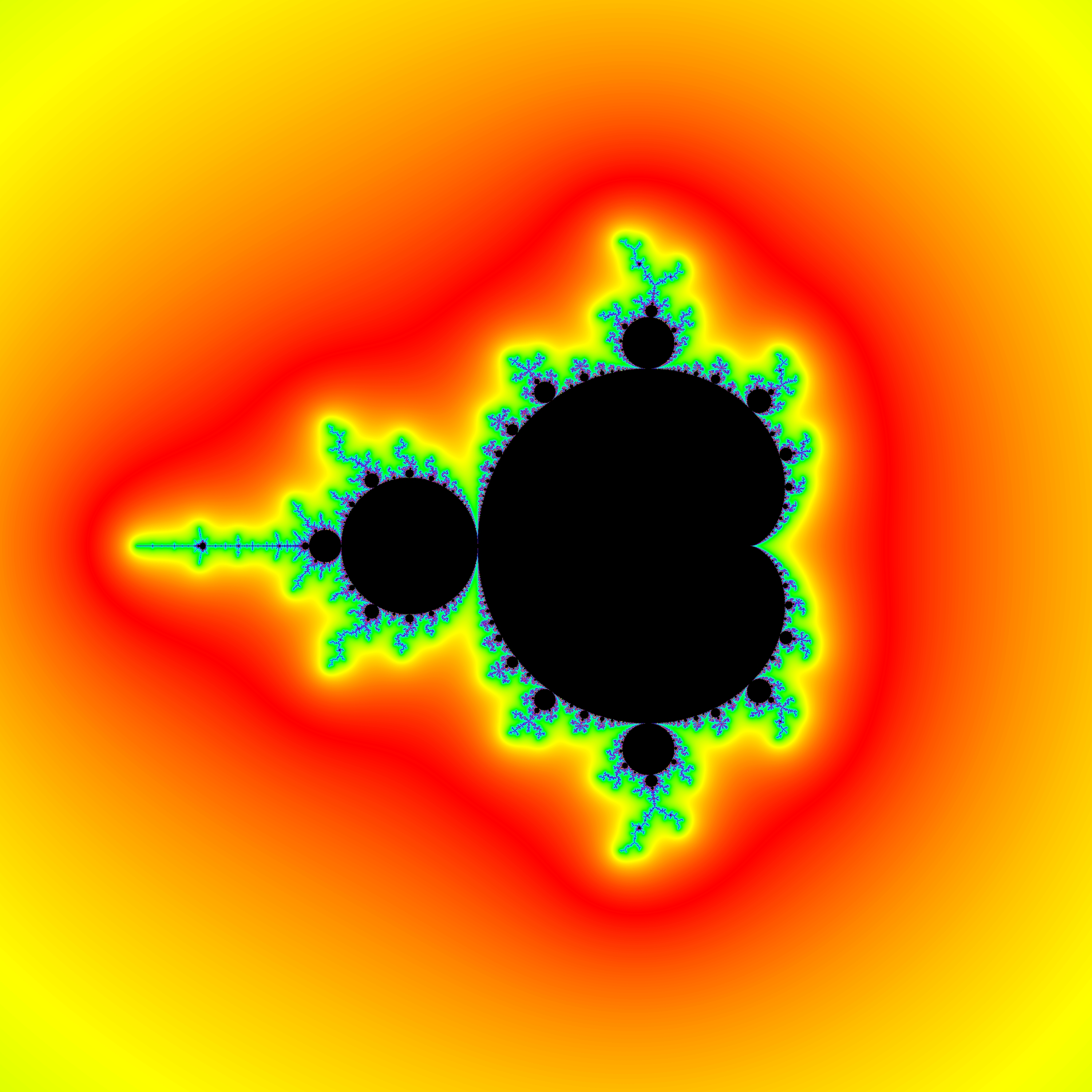 Mandelbrot set for F(z) = z2 + c using Milnor algorithm = DEM/M